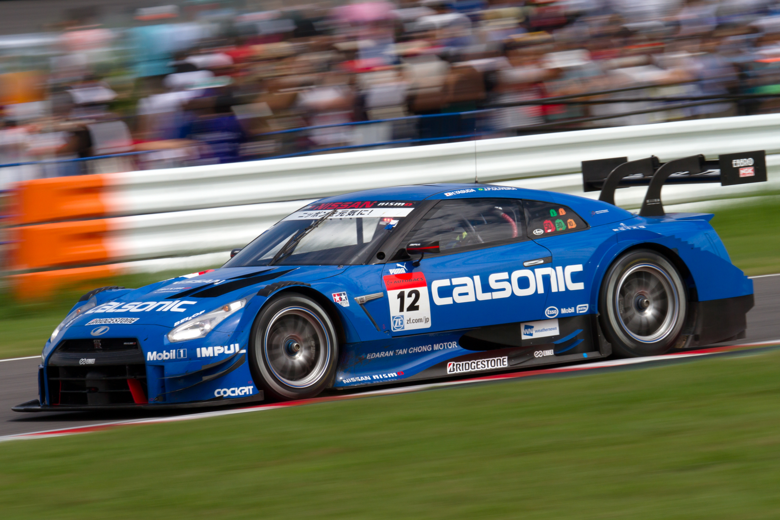 Super GT 2014 Rd.6 Suzuka 1000km: Hironobu Yasuda (Impul)